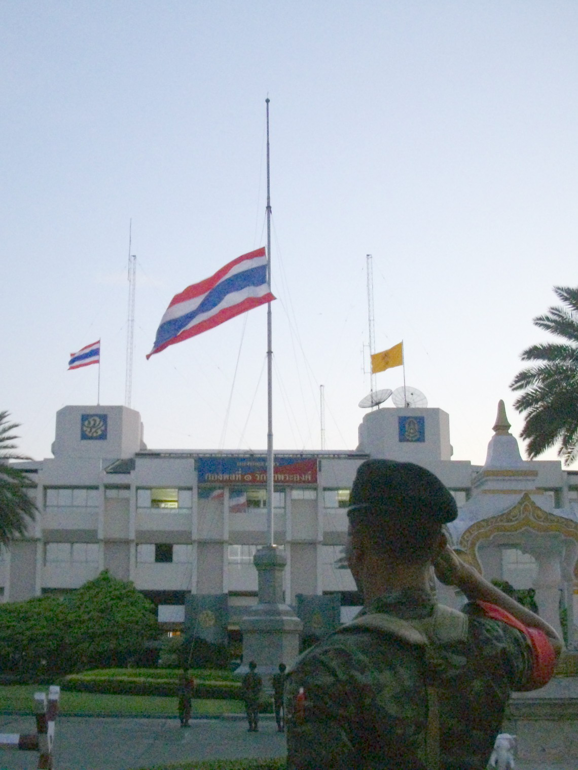 Lowering the flag of Thailand ceremony at 6.00 p.m. at the First Division, King's Guard Headquater, Bangkok.